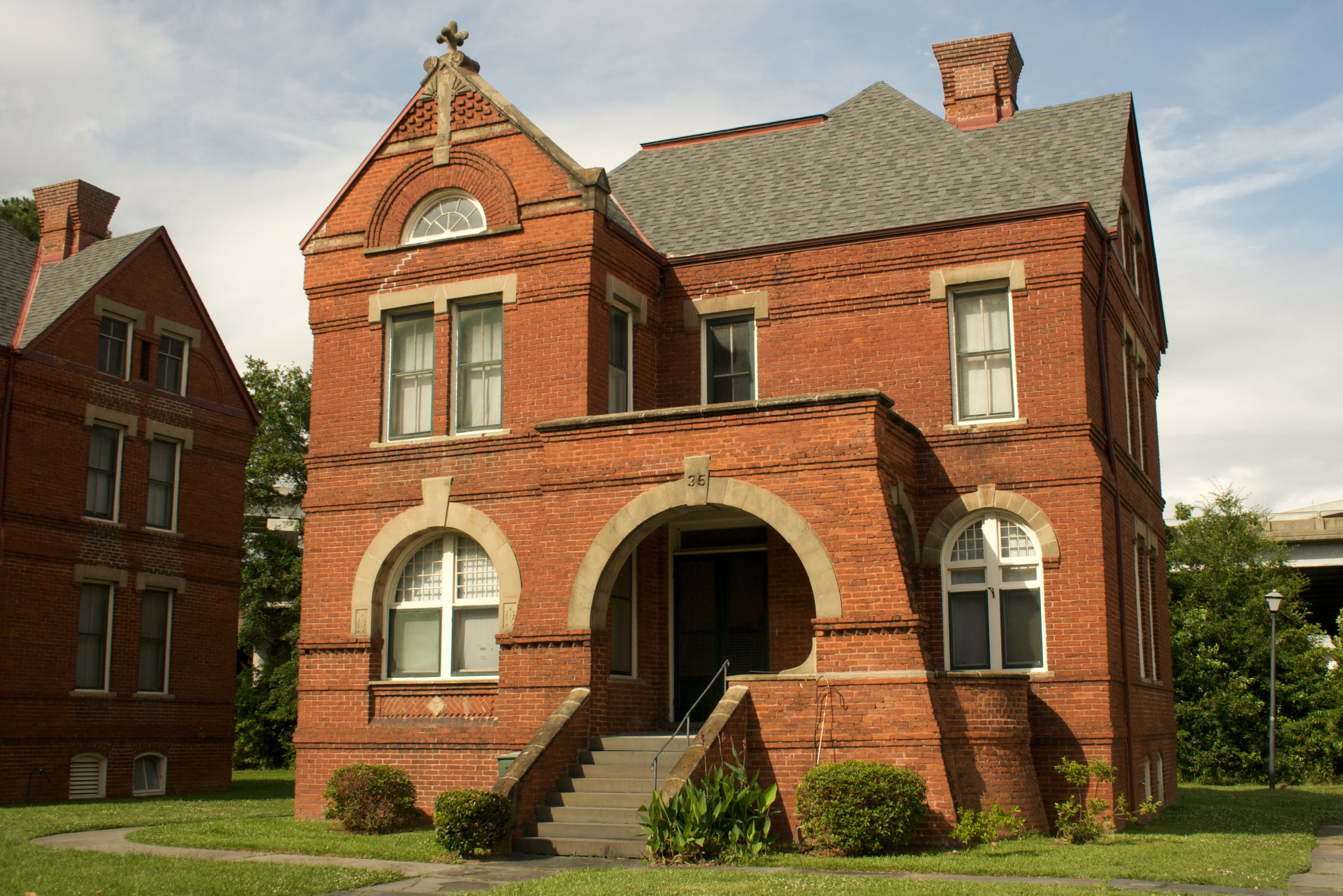 One of the original William Enston Homes in Charleston, SC.